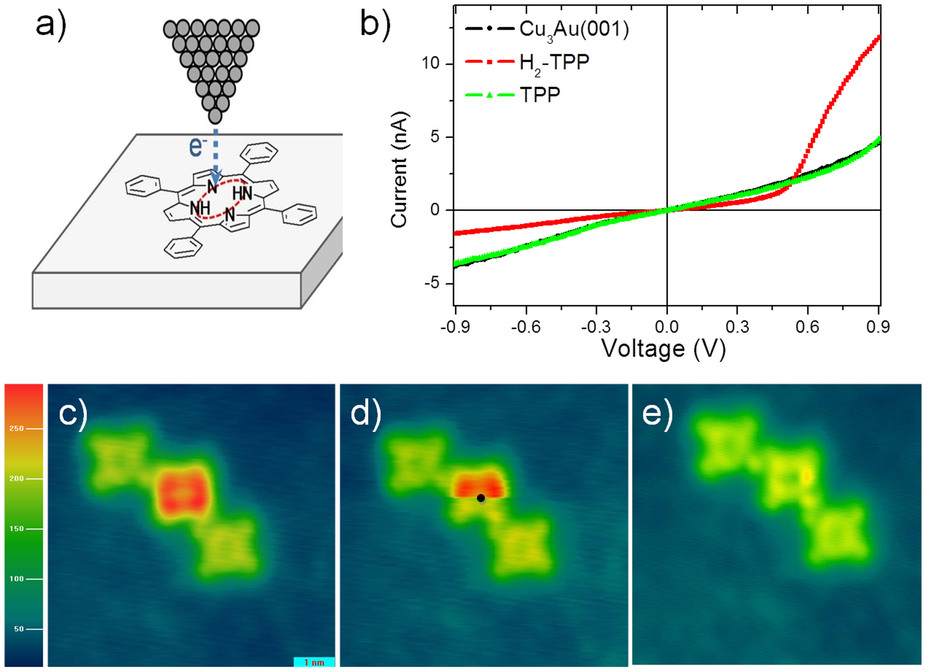 (a) Schematic illustration showing the dehydrogenation induced by the STM current. In this case, when applying 2.1 V with the STM tip on the center of the H2-TPP molecule the two hydrogen atoms are dissociated. (b) Typical I–V curves measured at the center of the H2-TPP molecule before and after the dehydrogenation. The I–V curve of the Cu3Au substrate is shown for comparison. (c–e) Sequence of STM images of the dehydrogenation process of the H2-TPP molecules on Cu3Au. (c) Three molecules, 2 TPP and 1 H2-TPP in the center. (d) The black dot illustrates the position when voltage is applied and the Hs were dissociated. (e) STM image after the dehydrogenation. STM topographic image were obtained at 0.54 V and 2.0 nA.